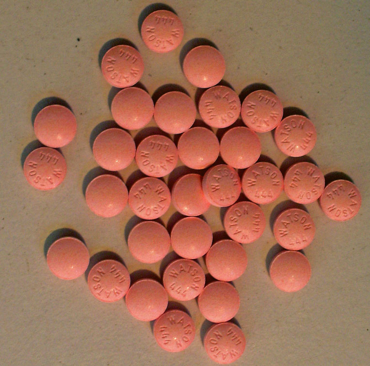 Photographed by Daniel Case 2007-05-22